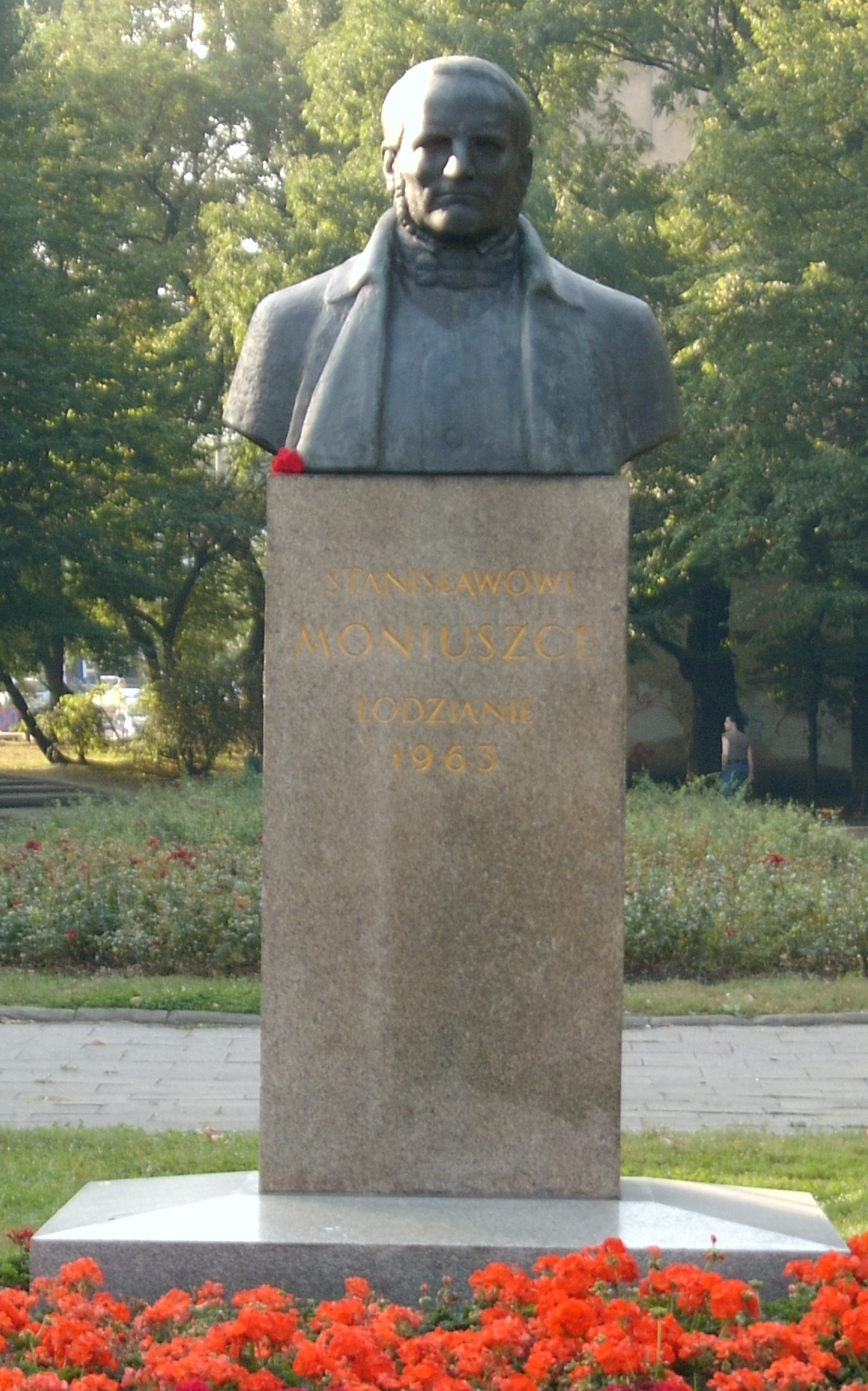 Monument of Stanisław Moniuszko in Łódź.